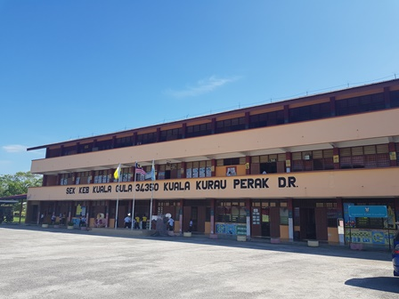 School Building